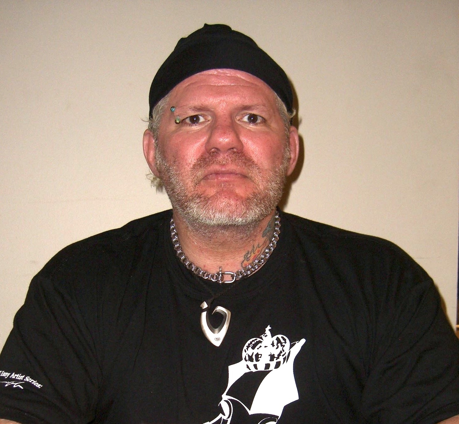 Professional wrestler Raven at the Big Apple Convention in Manhattan, May 22, 2011. Photographed by Luigi Novi. This photo is not in the public domain. It may, however, be used, modified and published for any purpose, free of charge, only if the photographer is properly credited, either by linking the photograph to this page, or with an easily visible credit to the photographer placed near the photo in each instance in which it is used. (See licensing information below.) Publication of this photo without this proper attribution constitutes copyright infringement. If you have any questions, you can contact me on my Wikipedia Talk Page.